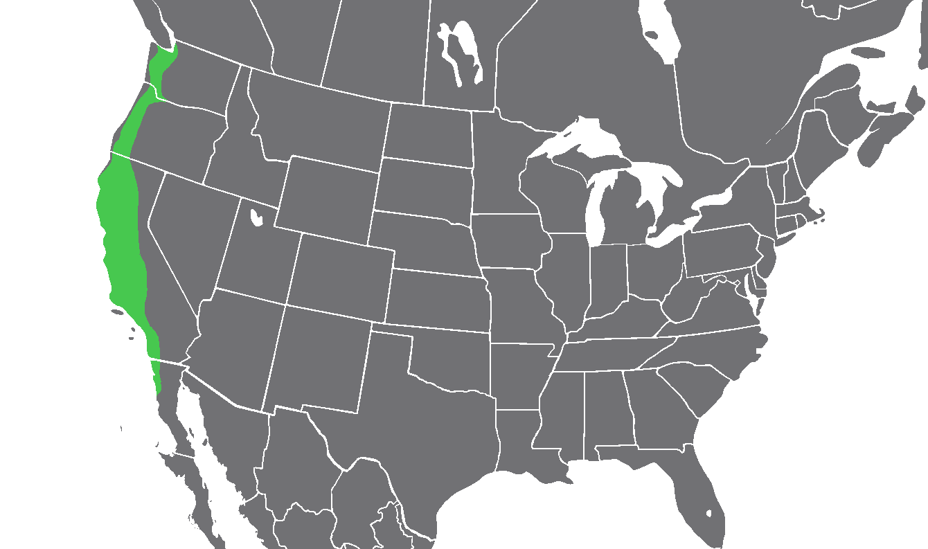 approximate distribution map of Amanita ocreata